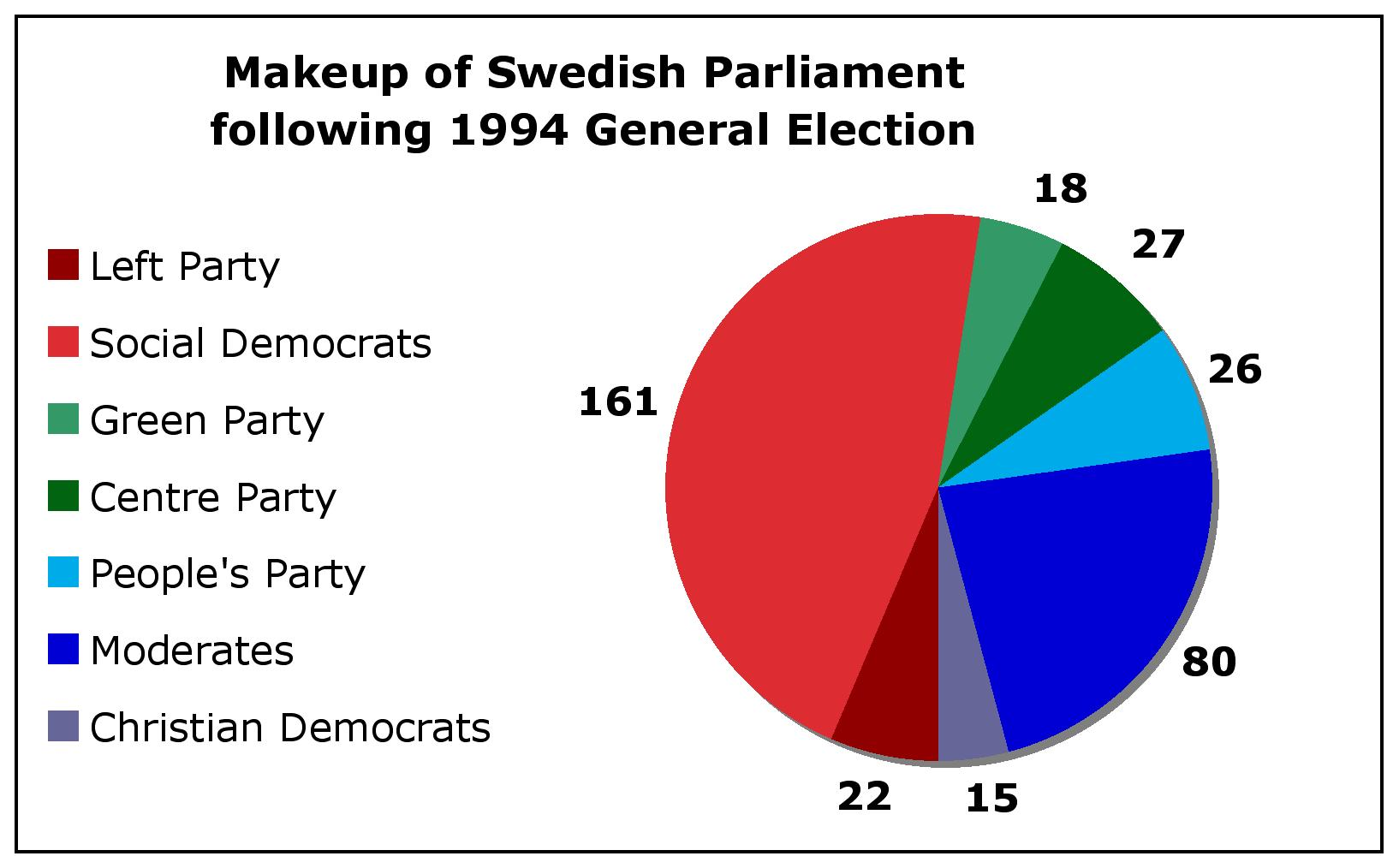 Pie chart of the political makeup of the Parliament of Sweden following the general election of 1994.